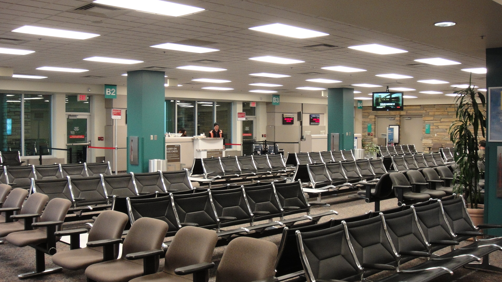 B gates waiting area at Asheville Regional Airport, Jan. 2010